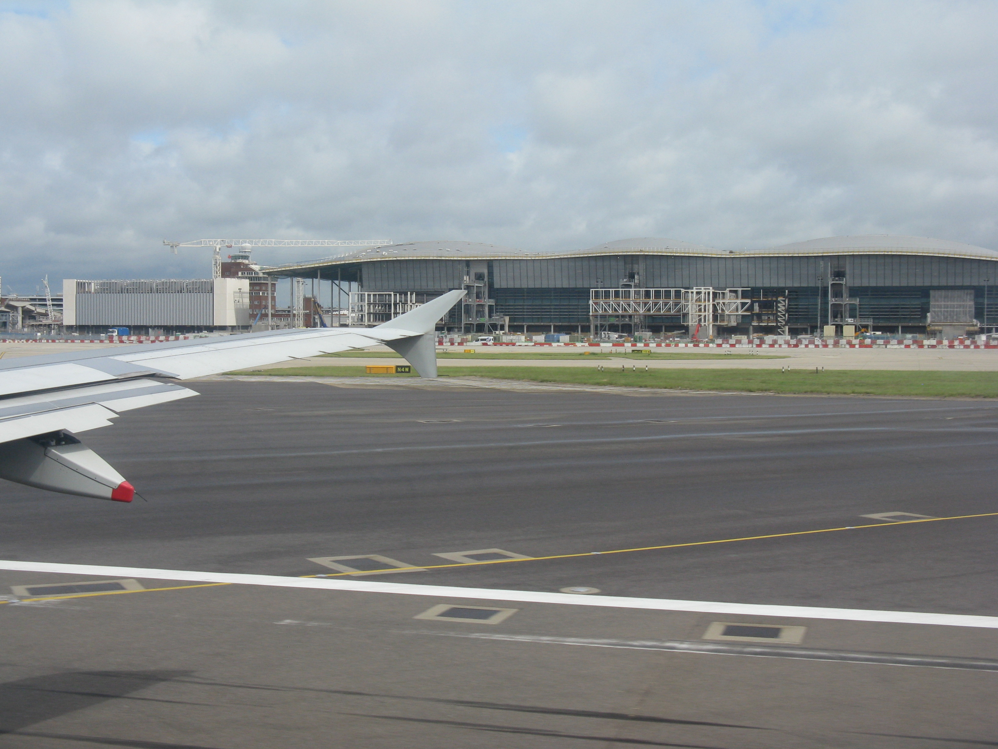 Looking to Terminal 2 at Heathrow